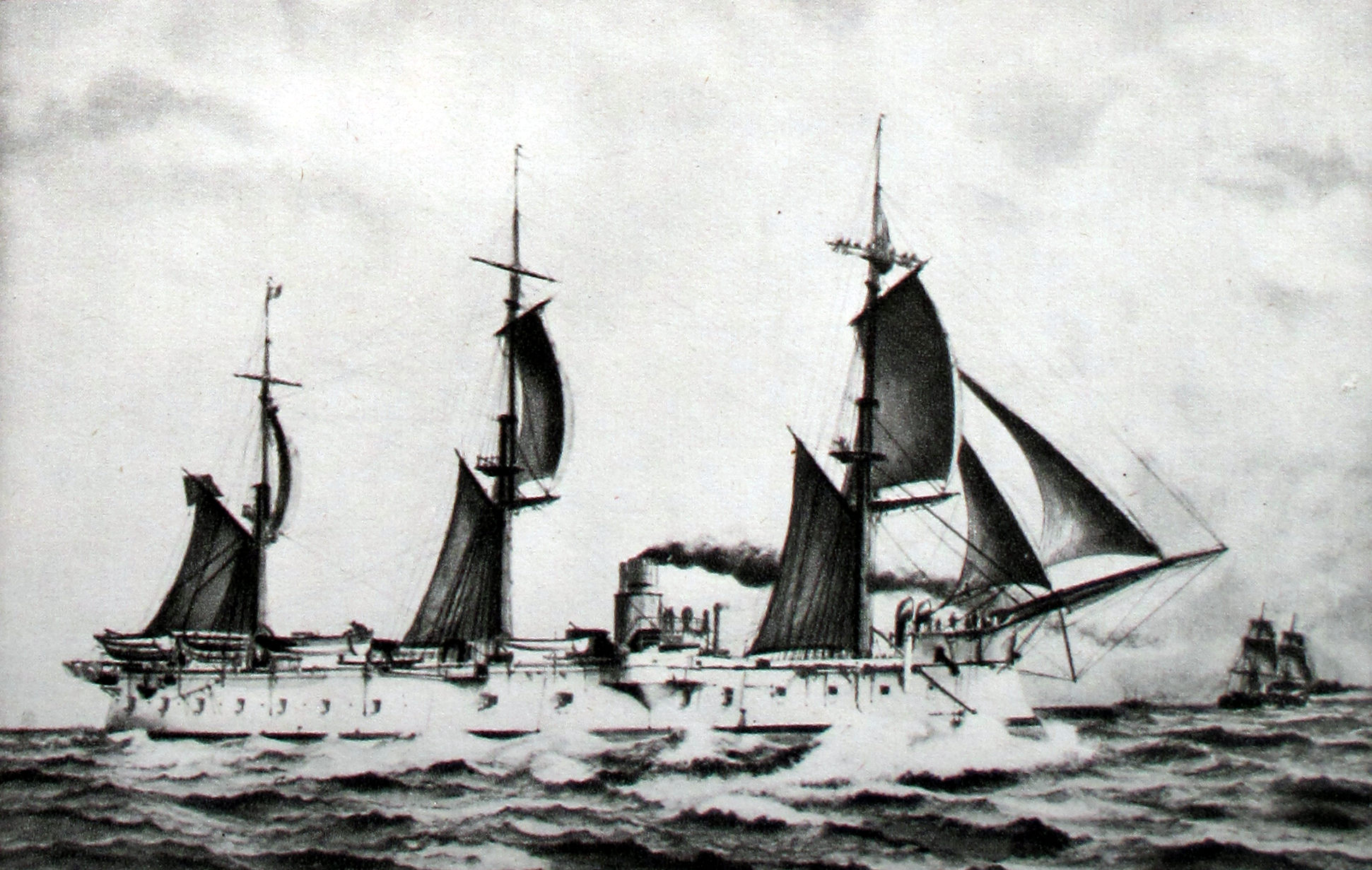 Armoured frigate Océan